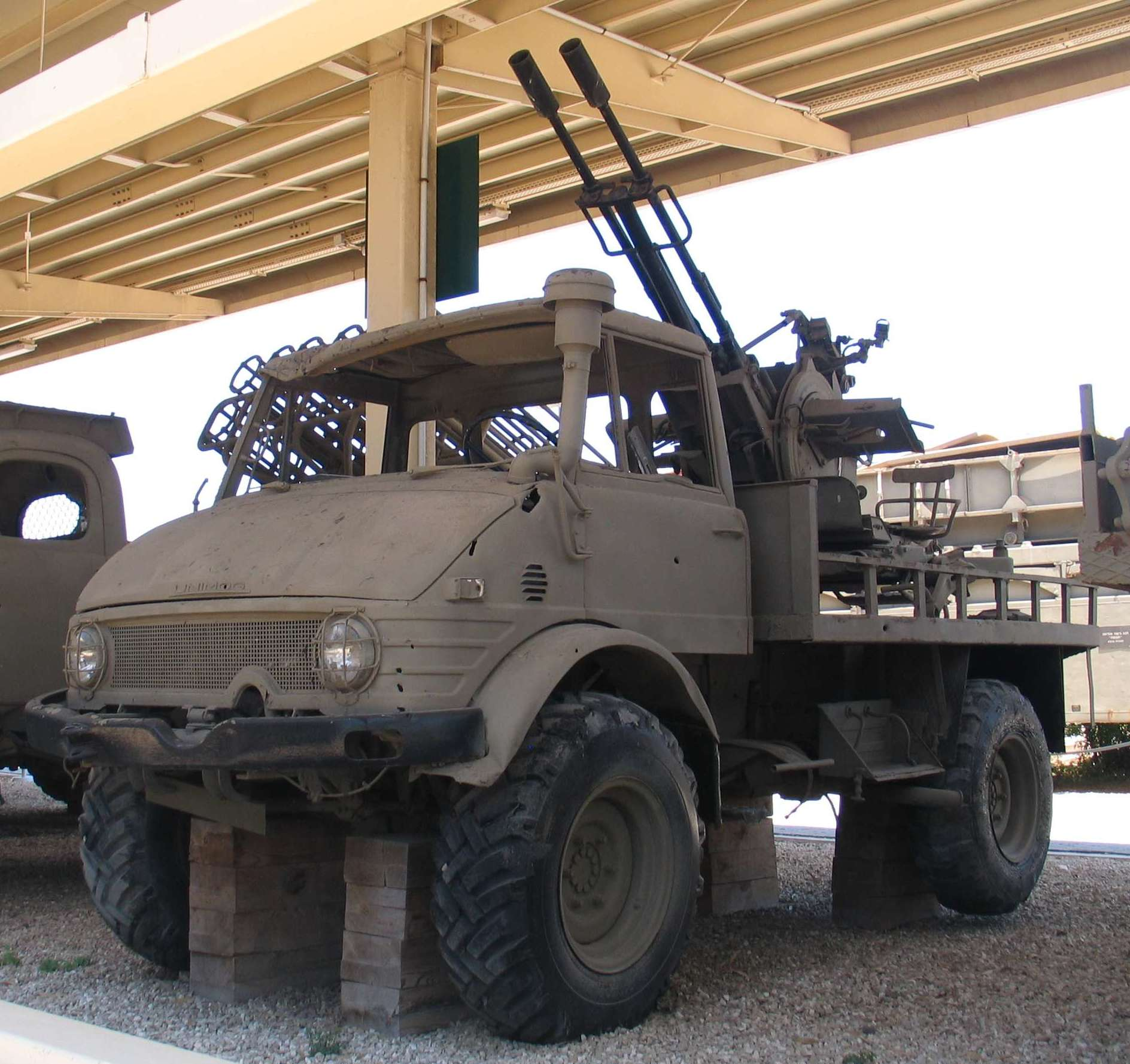 Batey ha-Osef museum, Tel Aviv, Israel. ZU-23 23 mm anti-aircraft cannon mounted on Unimog light truck.